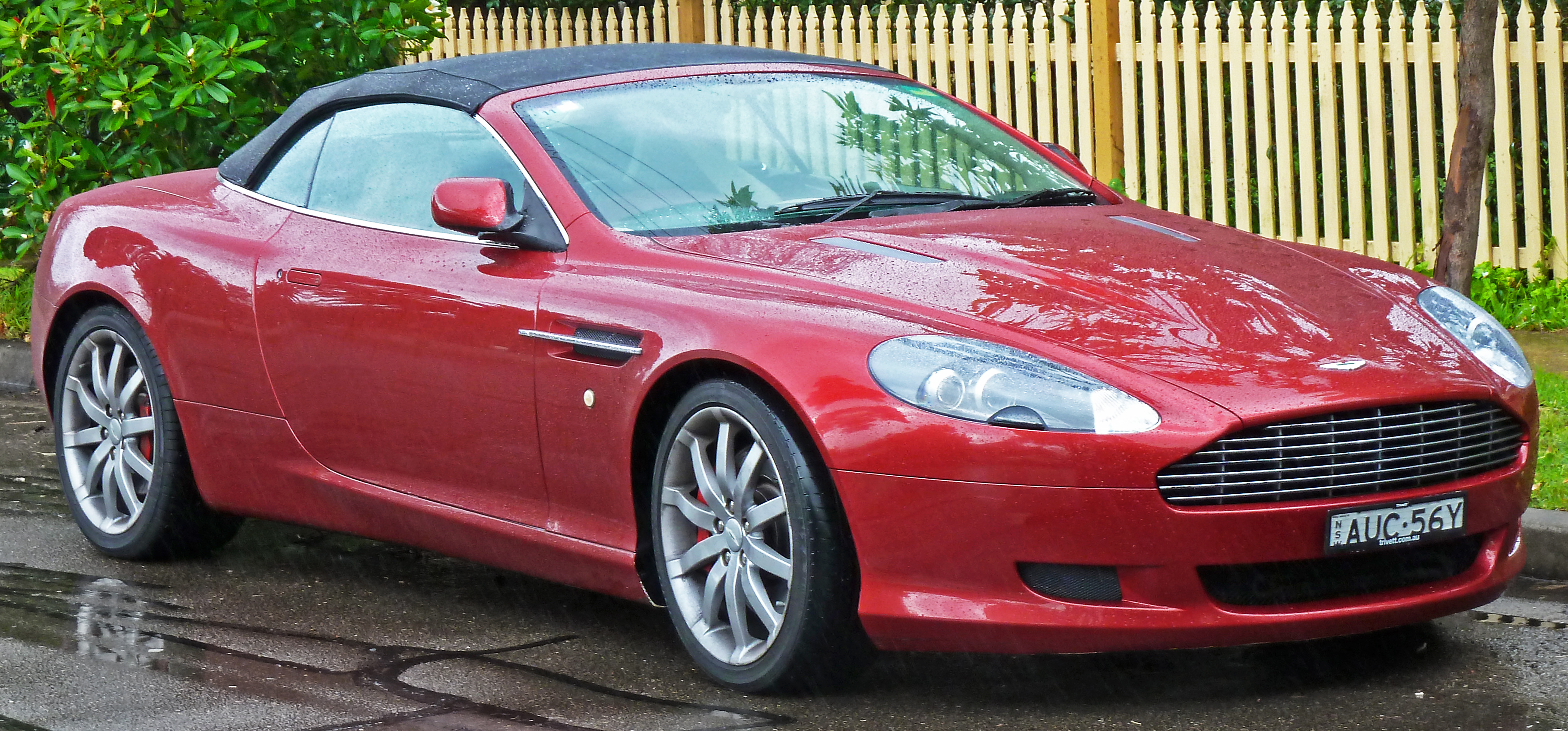 2005 Aston Martin DB9 Volante convertible. Photographed in Chatswood, New South Wales, Australia.